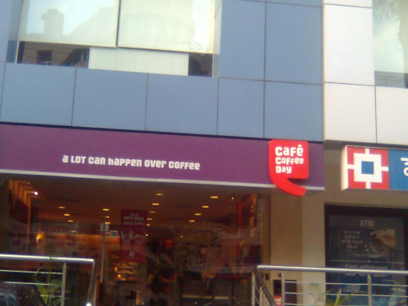 Coffee Day Outlet in India